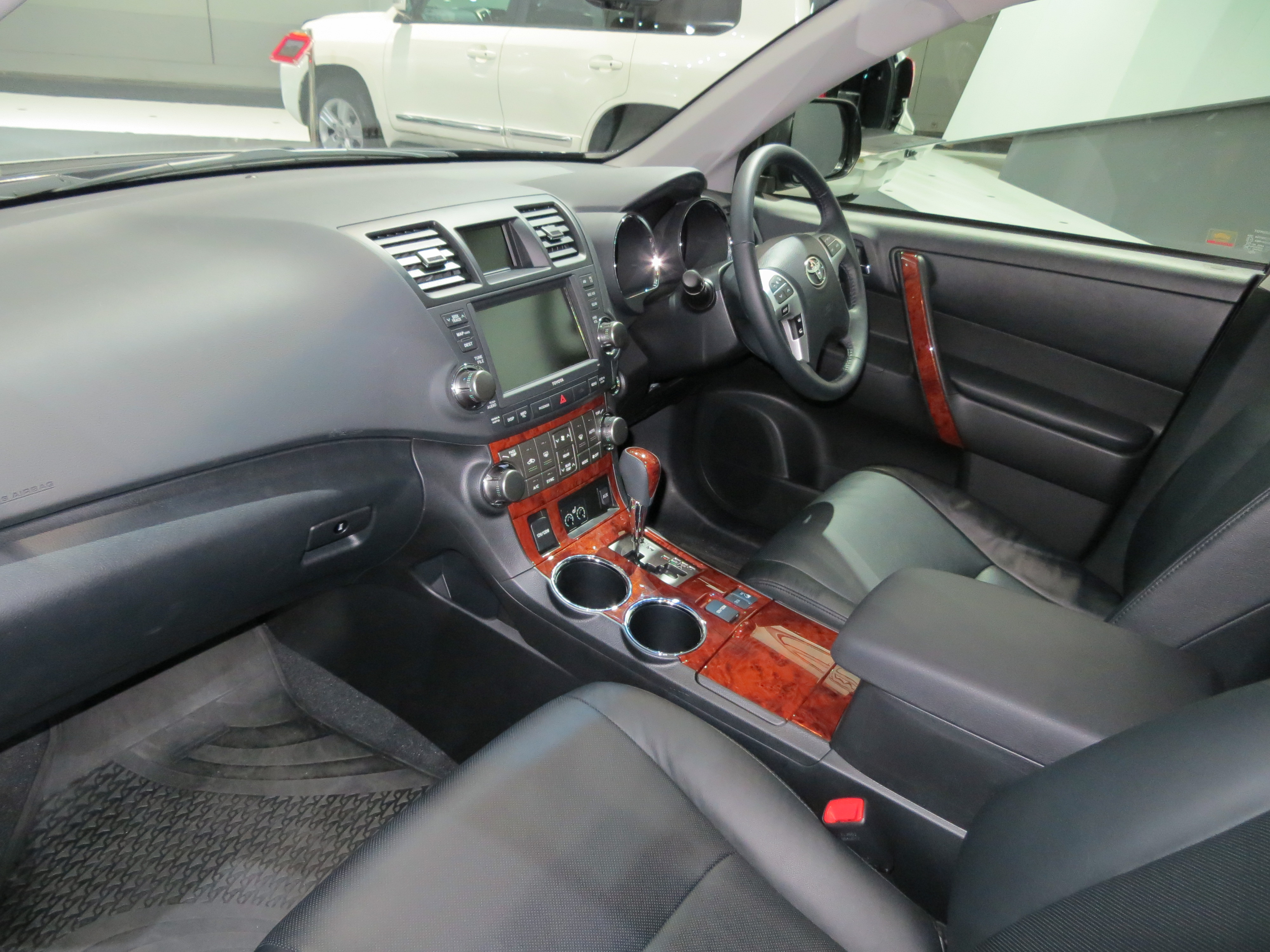 2012 Toyota Kluger (GSU40R MY12) Grande wagon. Photographed at the 2012 Australian International Motor Show, Sydney, New South Wales, Australia.